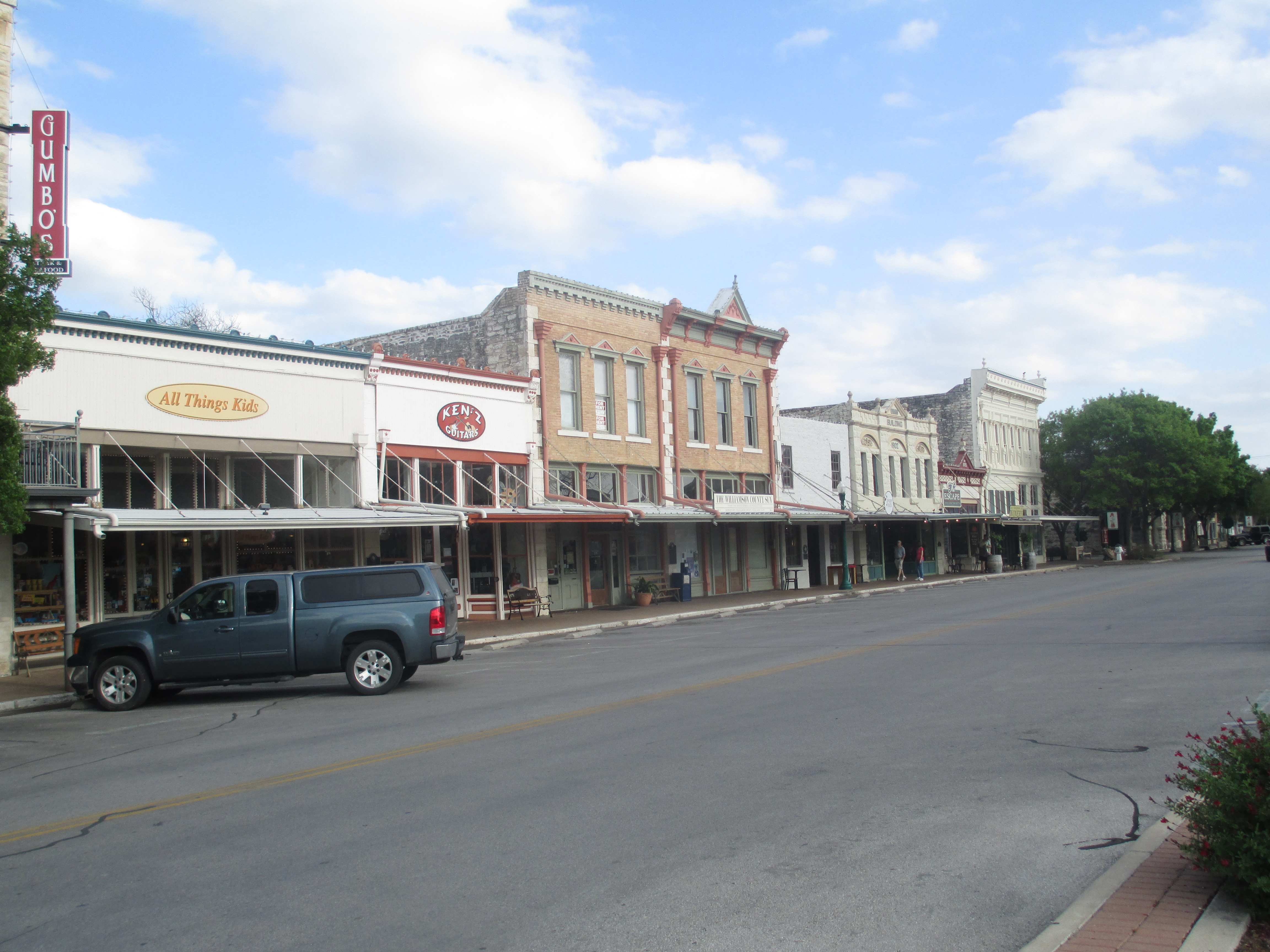 I took photo with Canon camera around Courthouse Square in Georgetown, TX, with Canon camera, April 7, 2013. Billy Hathorn (talk) 11:11, 10 April 2013 (UTC)